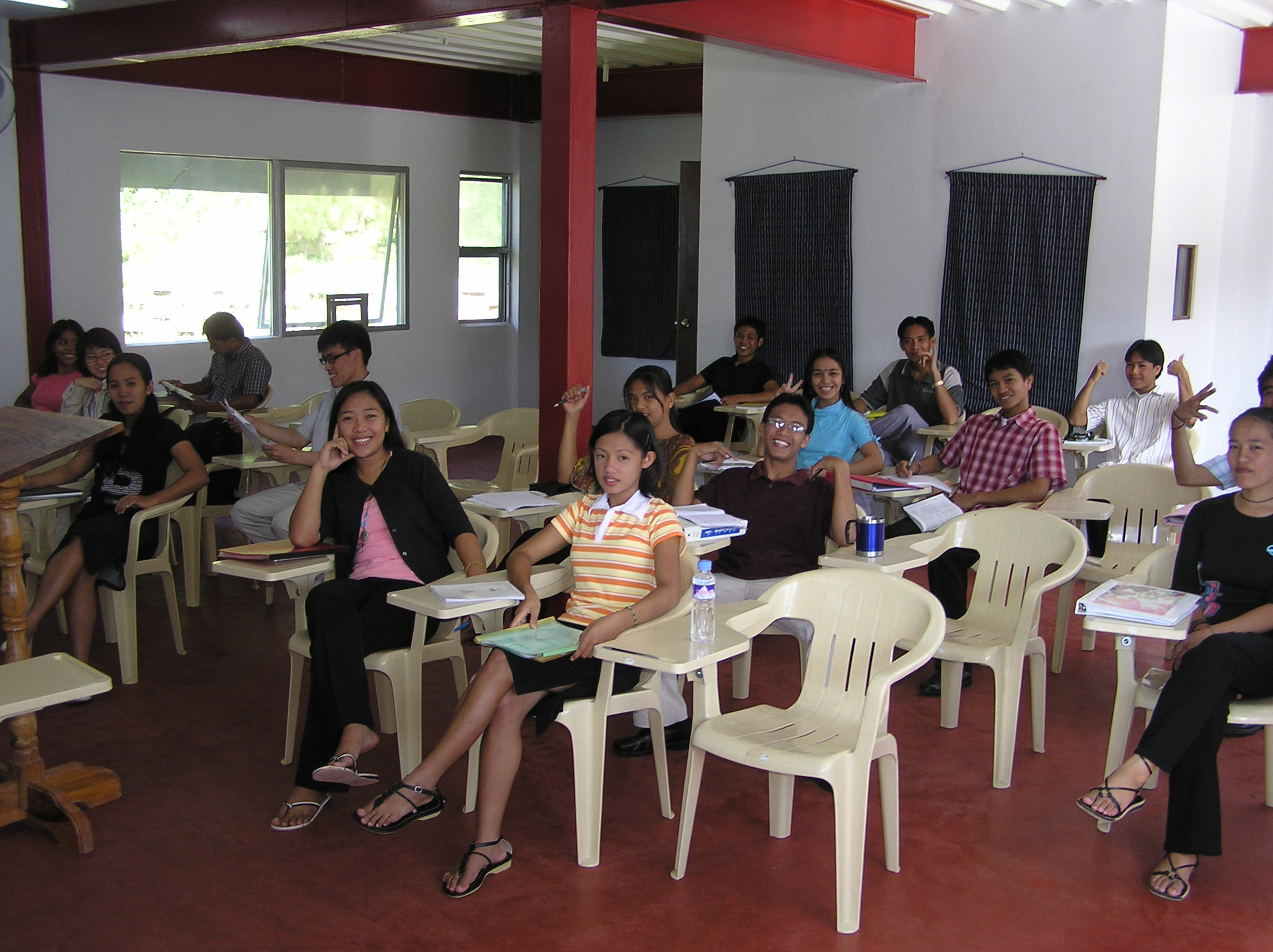 Philippine College of Ministry, Baguio City, Philippines. One of four large classrooms.